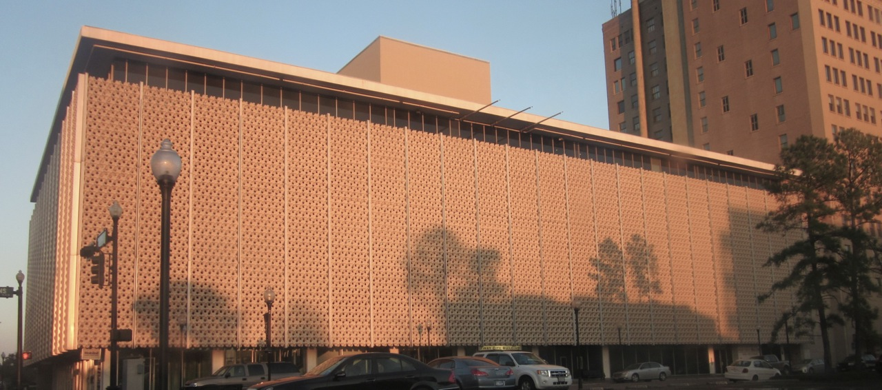 First City Building Beaumont, Texas. Near sunset.